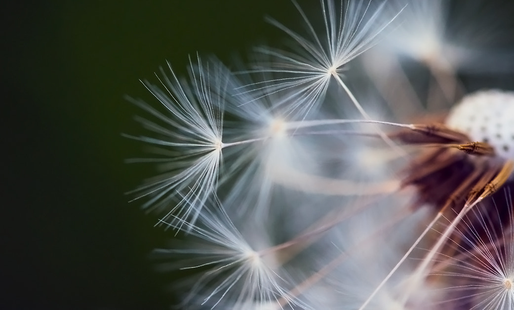 500px provided description: Reminded me of my childhood, playing in the front yard and making wishes with dandelions. [#nature ,#macro ,#summer ,#close-up ,#childhood ,#dandelion ,#memories ,#seed ,#wishes ,#canon80d ,#sc2creations]